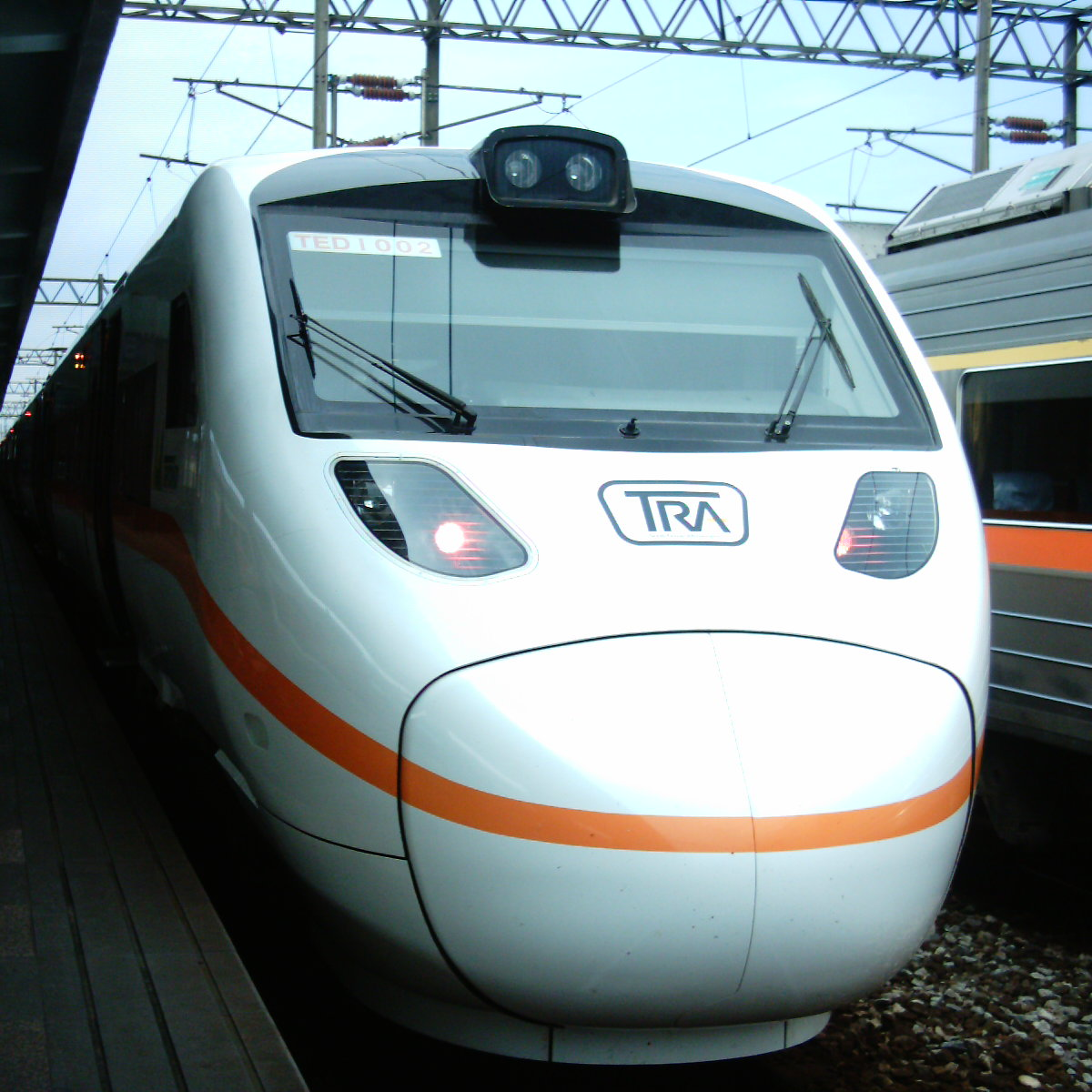 TRA TED1002 @ Hualien Station.